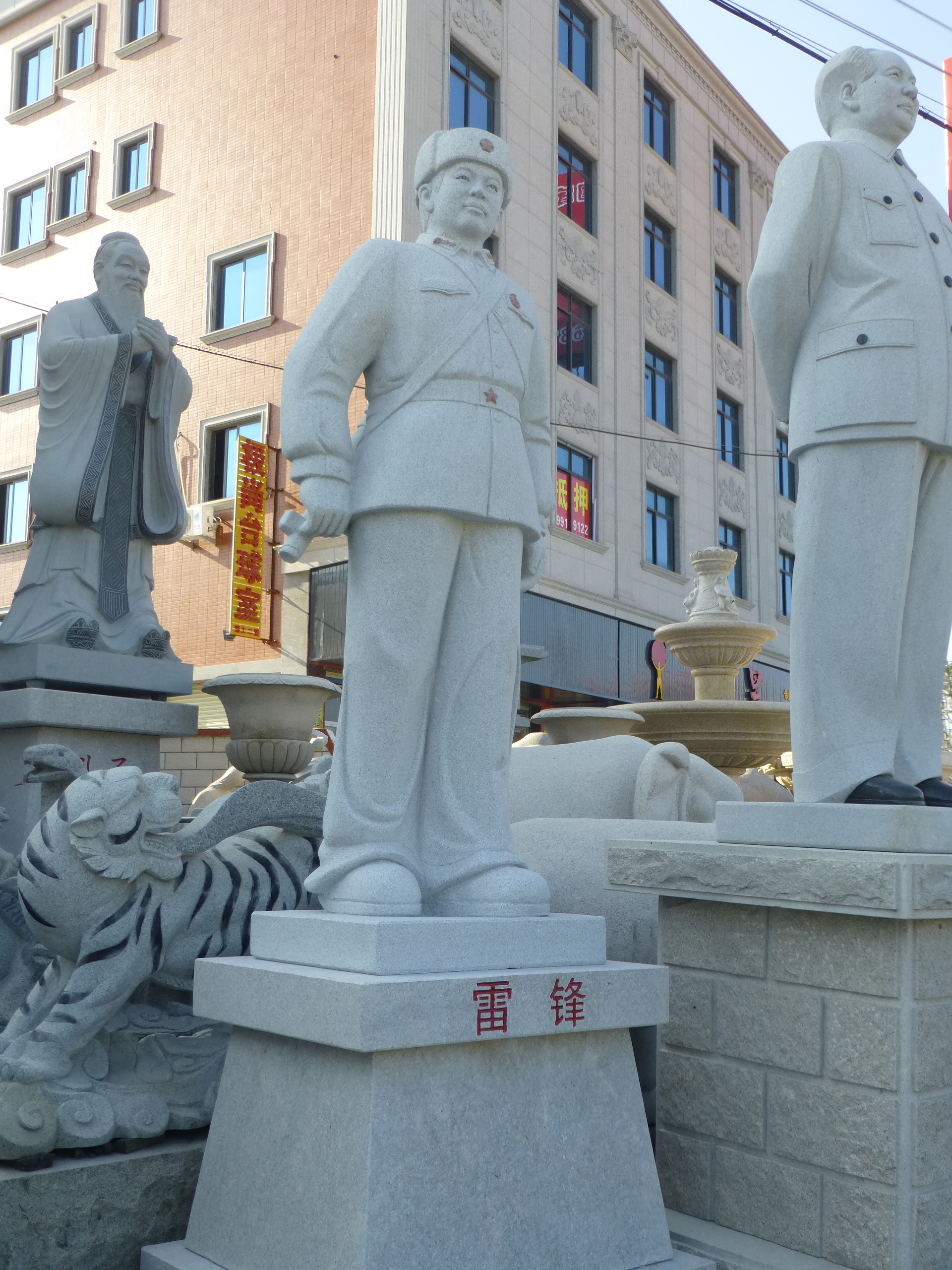 The Huichong Highway (Road X308), connecting downtown Hui'an and Chongwu Town is lined up with sculpture workshops, whose front yards are decorated with their products. Here, we see Confucius, Lei Feng, and Mao Zedong